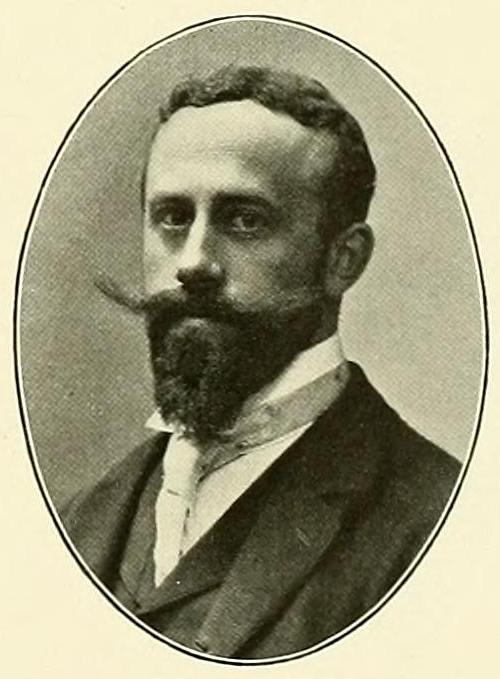 Portrait of the Austrian botanist Erich Tschermak